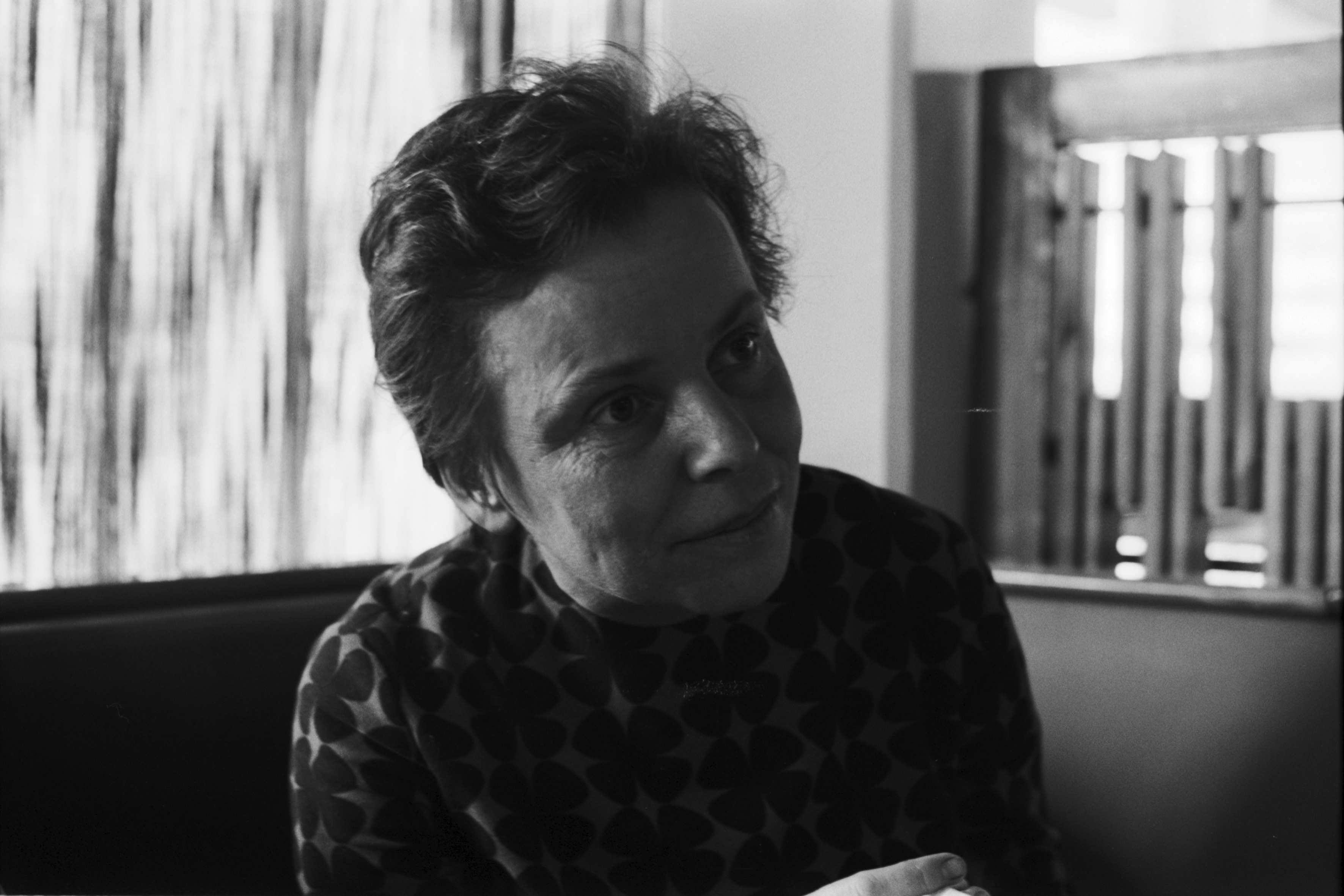 Photograph of the Finnish writer and journalist Tyyne Saastamoinen (1924–1998) at a café in Vuosaari, Helsinki.